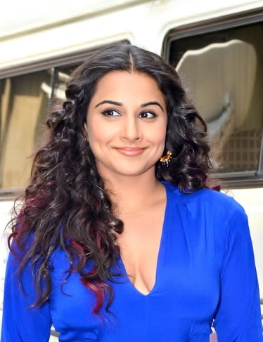 Vidya Balan on Nach Baliye 6